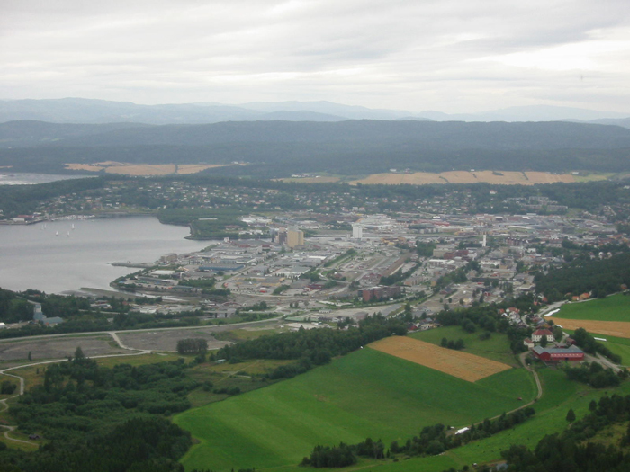 Steinkjer viewed from the east, on top of Ofsenaasen hill, picture taken 250 metres above sea level. The city of Steinkjer.